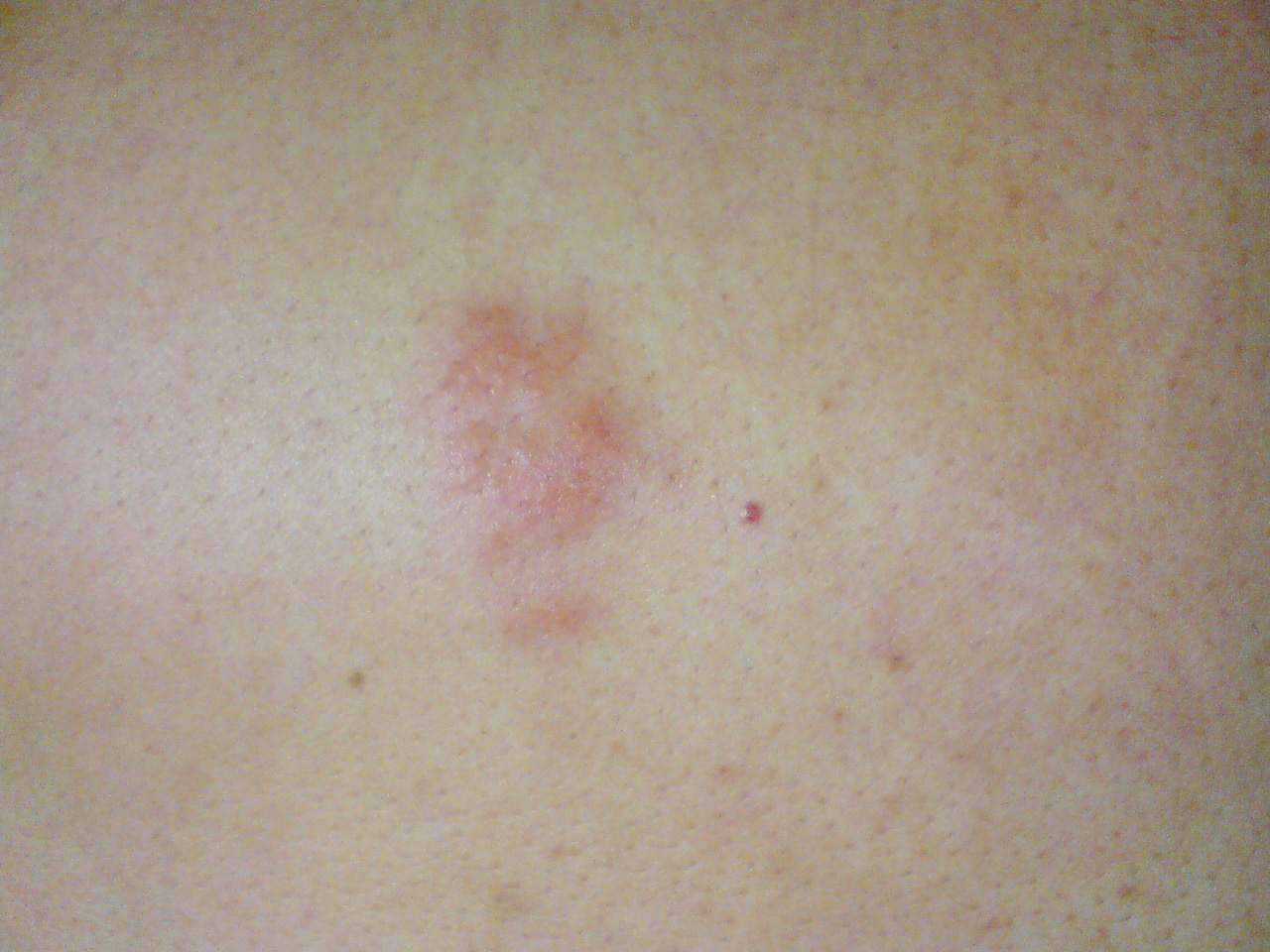 Herpes, an early rash